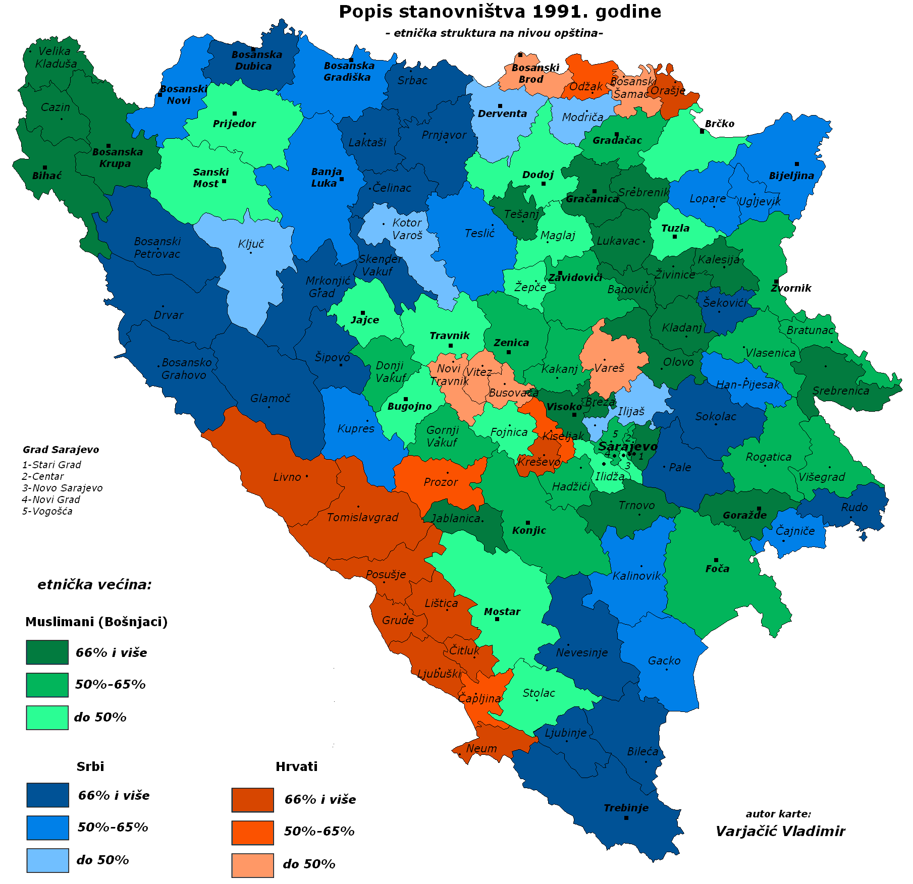 Ethnic map of Bosnia and Herzegovina from 1991. The author is Vladimir Varjarcic, and the source is the 1991 yugoslav population census. Map is uploaded on the Serbian Wikipedia, and this is the exact same image.